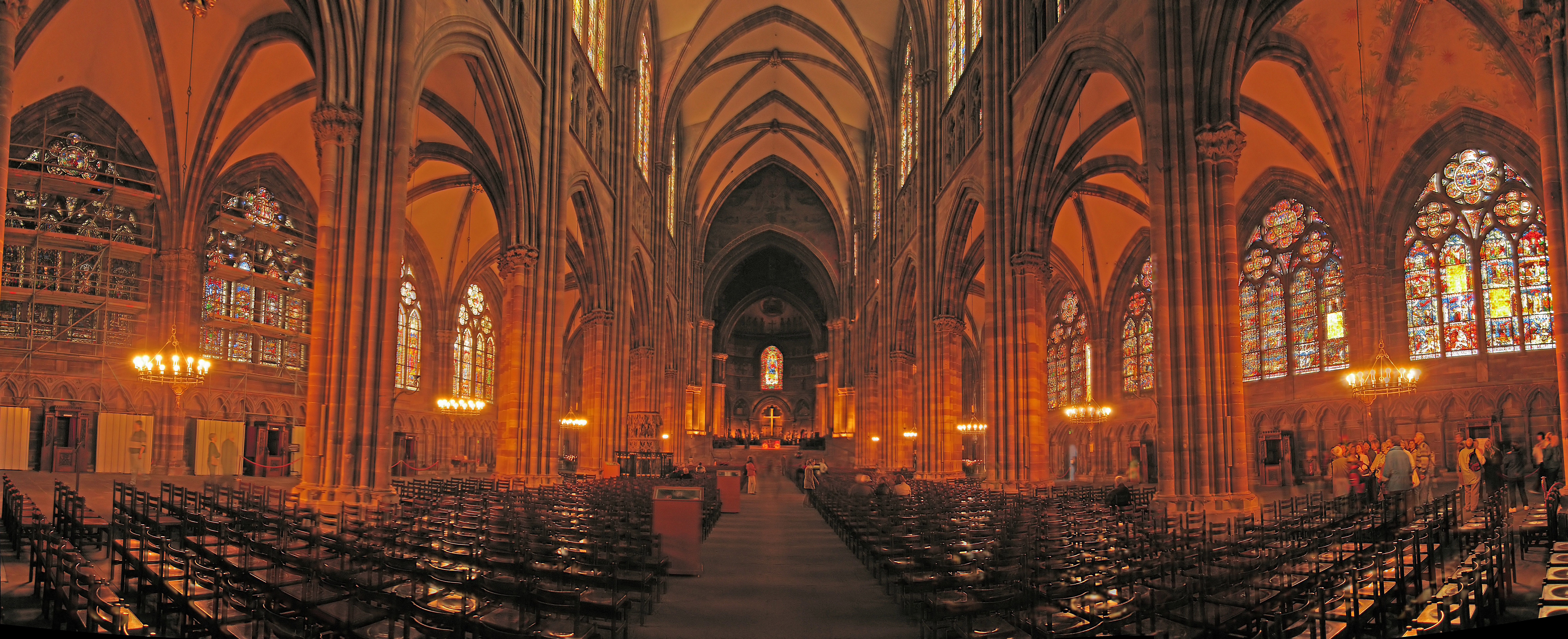 Strasbourg Cathedral